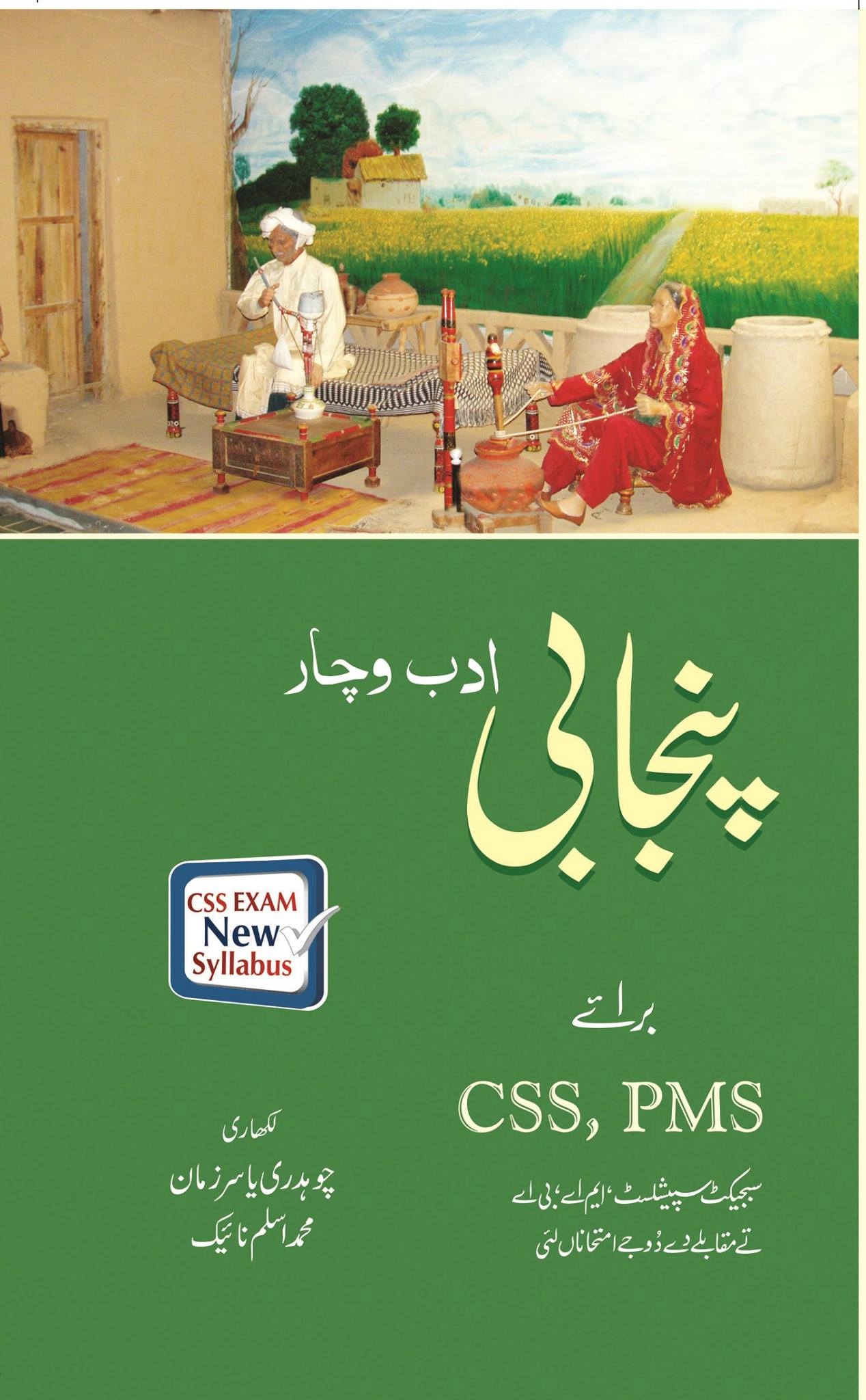 Punjabi Adab Vichaar Revised Edition Title Cover